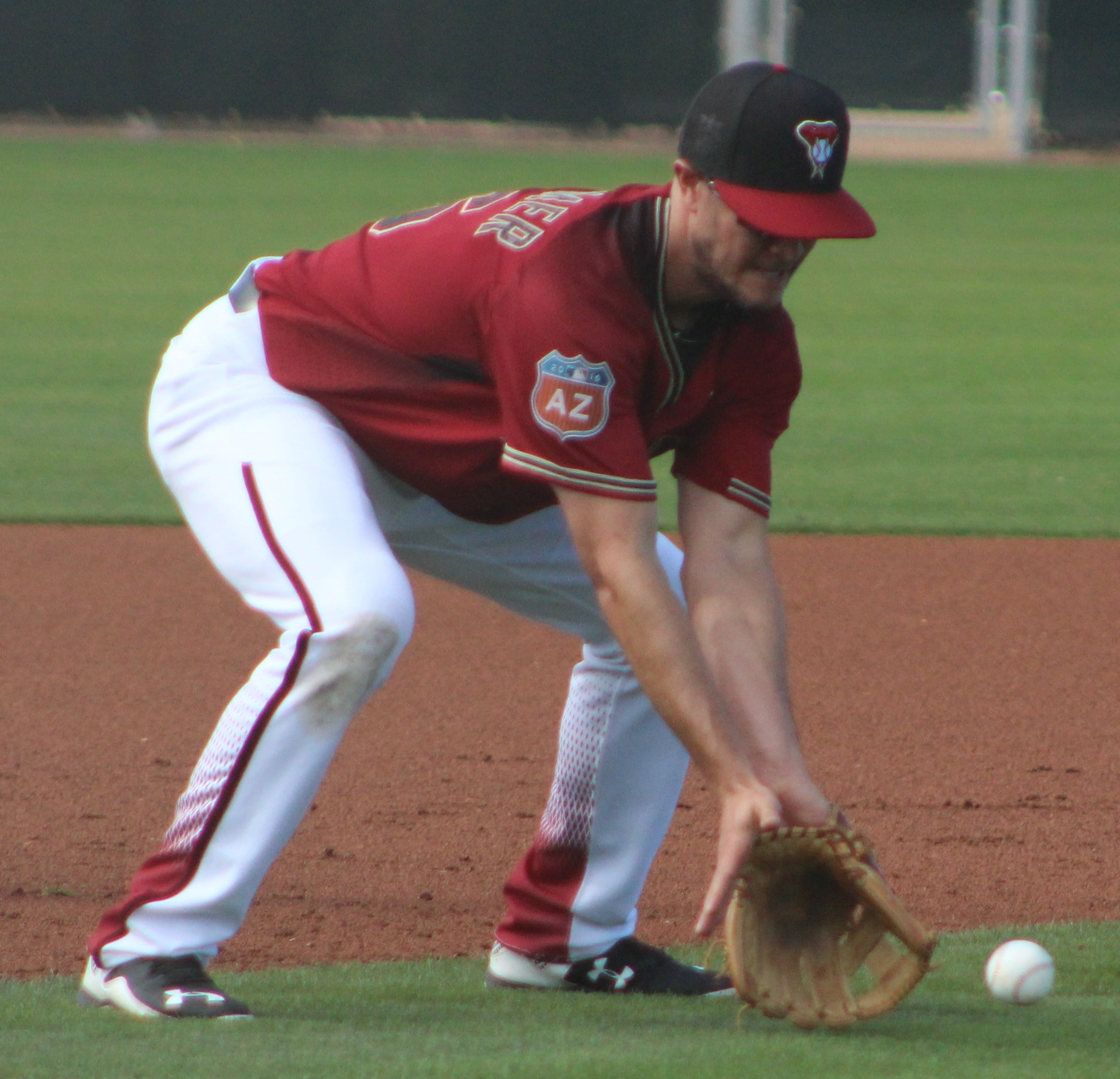 Jack Reinheimer with the Arizona Diamondbacks during spring training in 2016